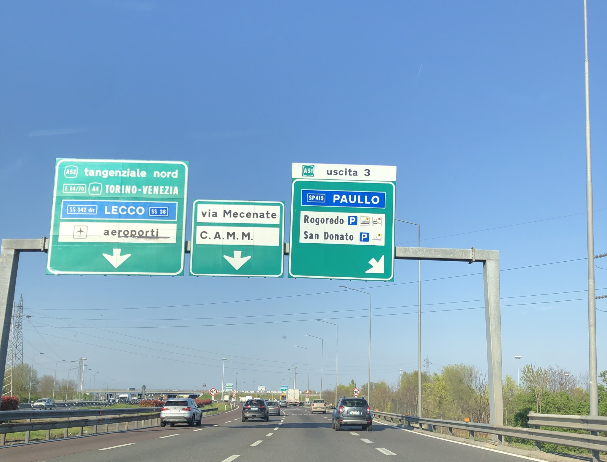 The italian highway A51, called beltway est of Milan, at the junction n.3.